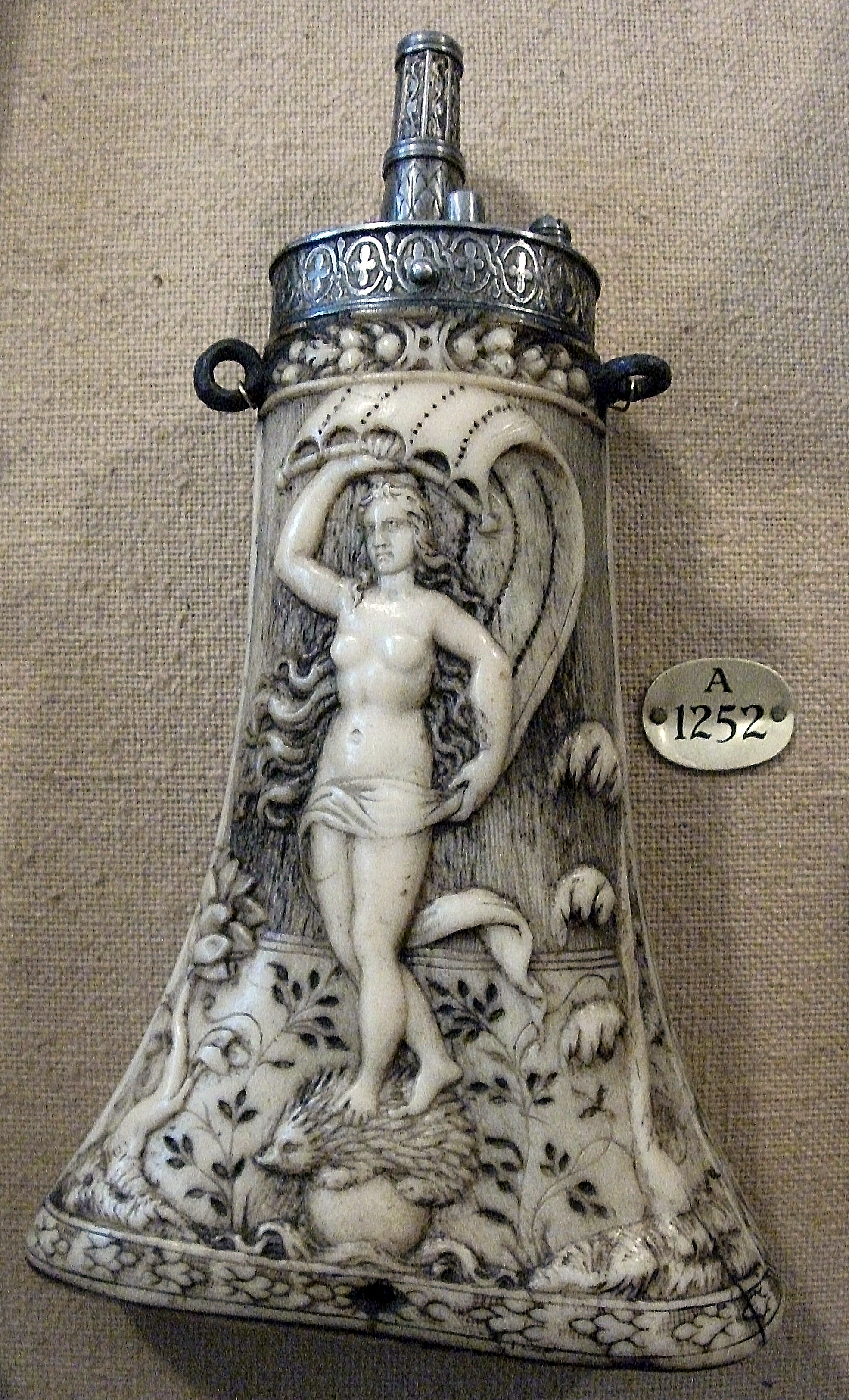 Wallace Collection Native nameWallace CollectionLocationLondonCoordinates51° 31′ 03″ N, 0° 09′ 11″ W Established1897Website control VIAF: 130815091 ULAN: 500302044 LCCN: n50034920 BNF: 12124266g WorldCat Powder-flask Unknown Artist / Maker Germany c. 1570 Antler and steel, carved and engraved Height: 19.6 cm Weight: 0.205 kg A1252 European Armoury III; Museum page